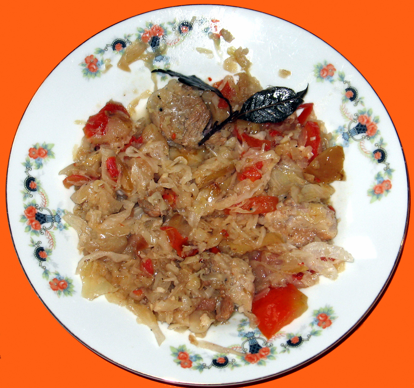 Bigos homemade Беларуская (тарашкевіца): Бігас хатняга прыгатаваньня